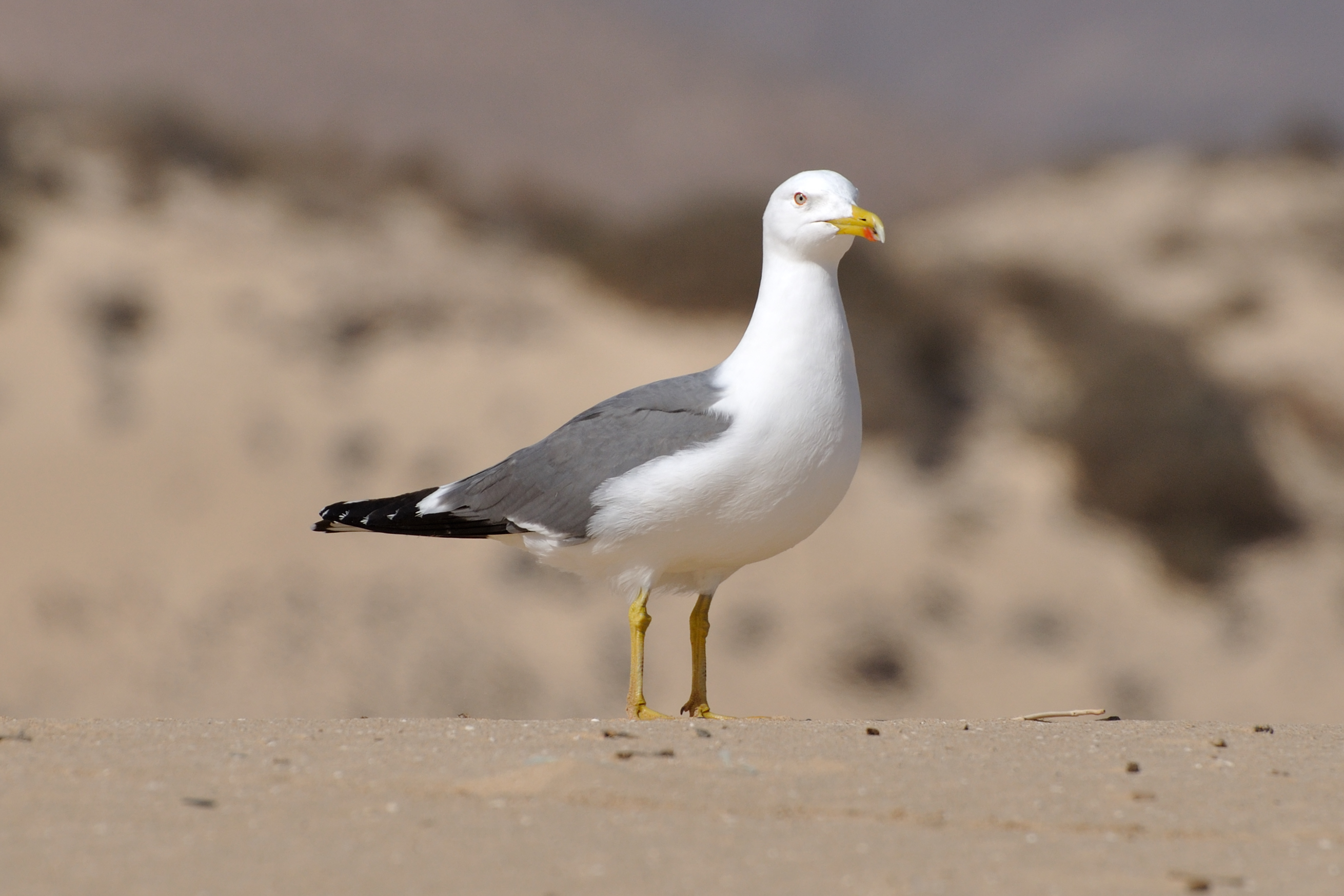 Spain, birds on the beach in Fuerteventura